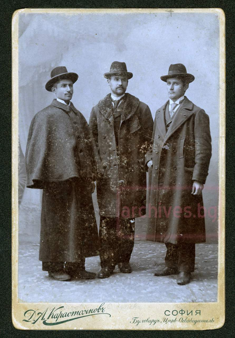 Spiro Olchev, Nikola Kokarev, Vasil Chekalarov in 1900 by Dimitar Karastoyanov.